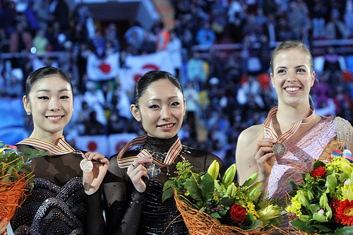 Kim Yu-Na, Miki Ando and Carolina Kostner at the 2011 World Figure Skating Championships